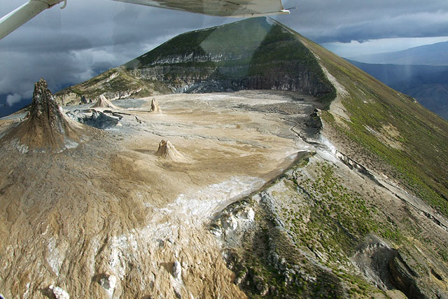 View into the crater of Ol Doinyo Lengai, Tanzania - Photo by Michael Rückl, Arzberg - November 2006